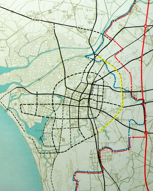 The urban plan of Tainan City, Taiwan